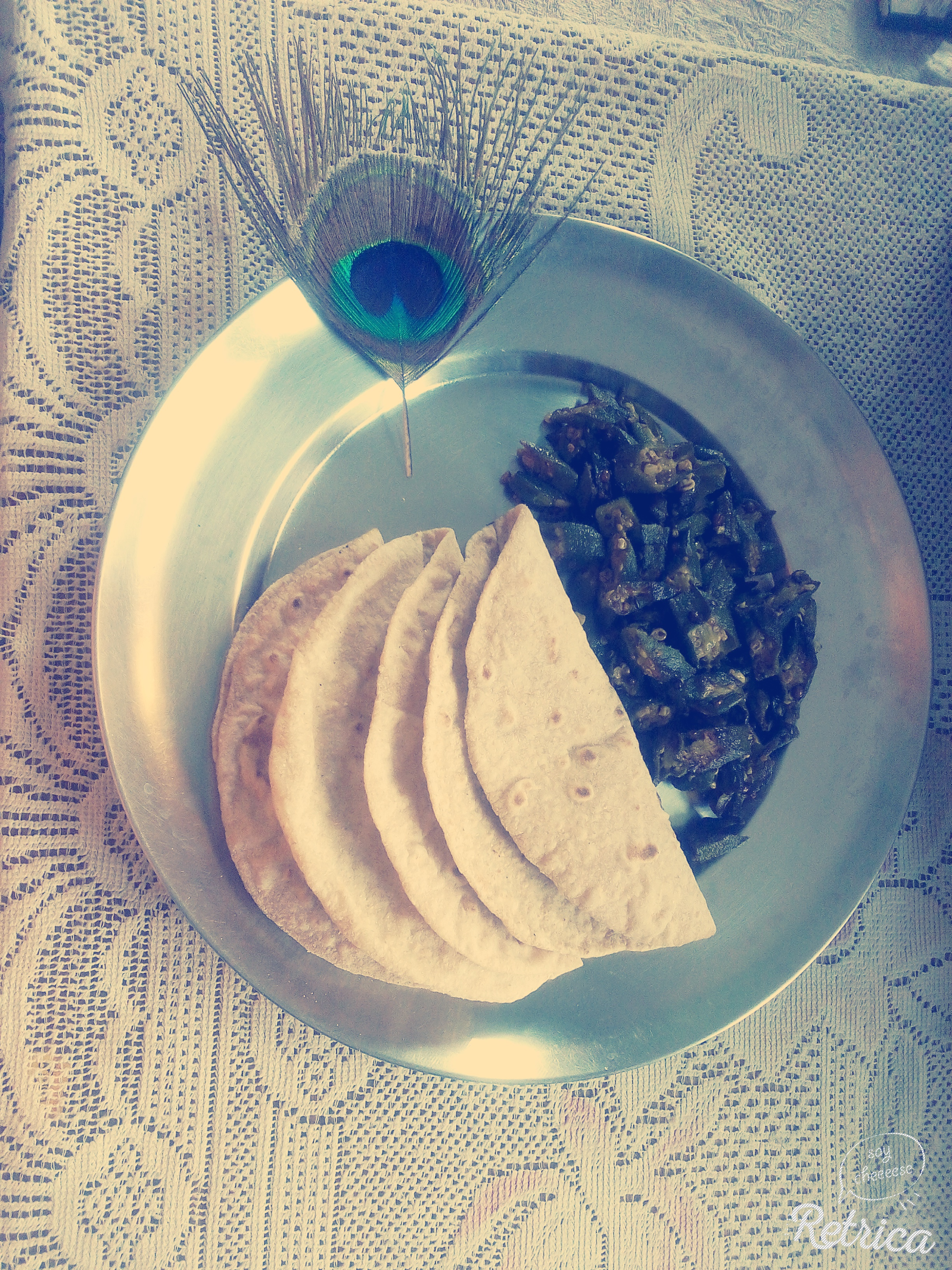 if you don't have tried this then you are missing the most delicious vegetable.. easy to coook . you just need some onions, mustard oil and ladyfinger....